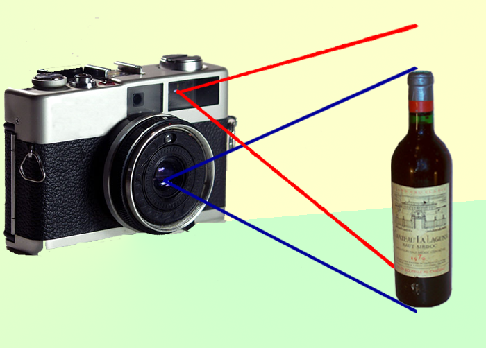 Composition. The original images are in commons